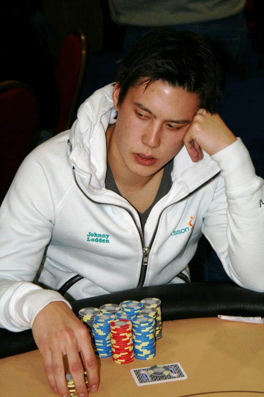 Johnny Lodden at the EPT Dublin event in 2007